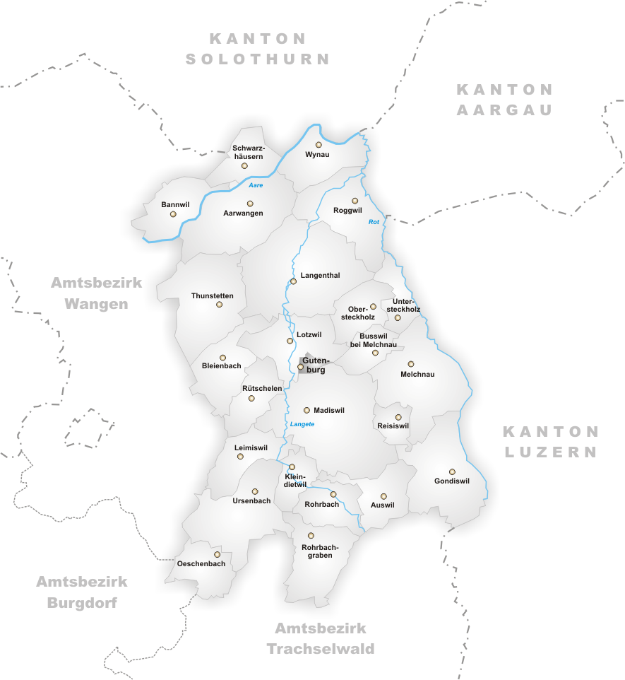 Municipality Gutenburg